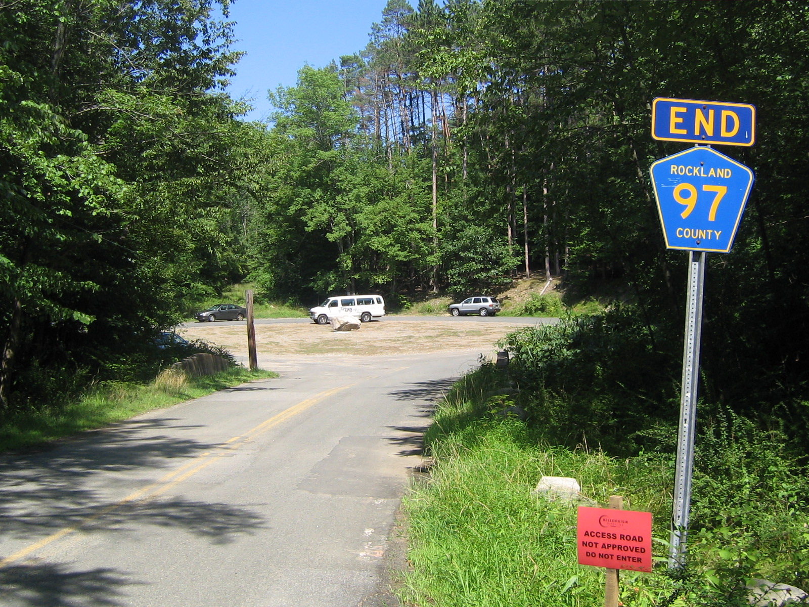 CR 97's northern terminus at the Harriman State Park border.